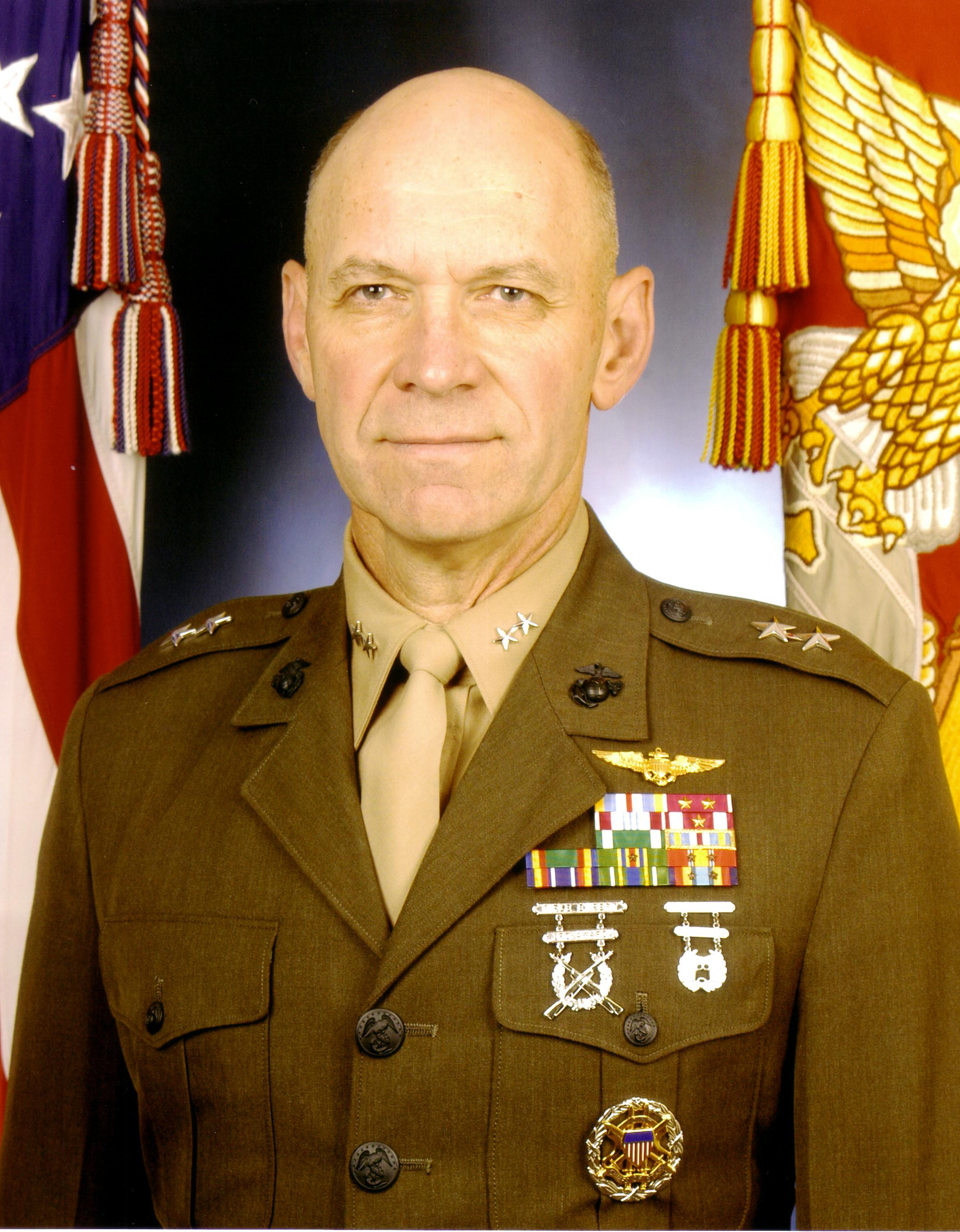 Lieutenant General Duane D. Thiessen. Photo taken from US Marine Corp web site